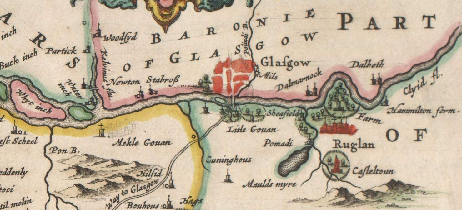 Govan, Scotland region (from the 1654 Blaeu map of Scotland)